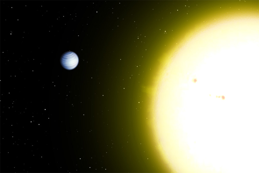 illustration by me user debivort may 07 Category:Extrasolar planetary images